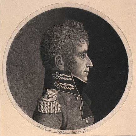 Rasmus Krag (1763-1838), Danish Lieutenant General of the Army